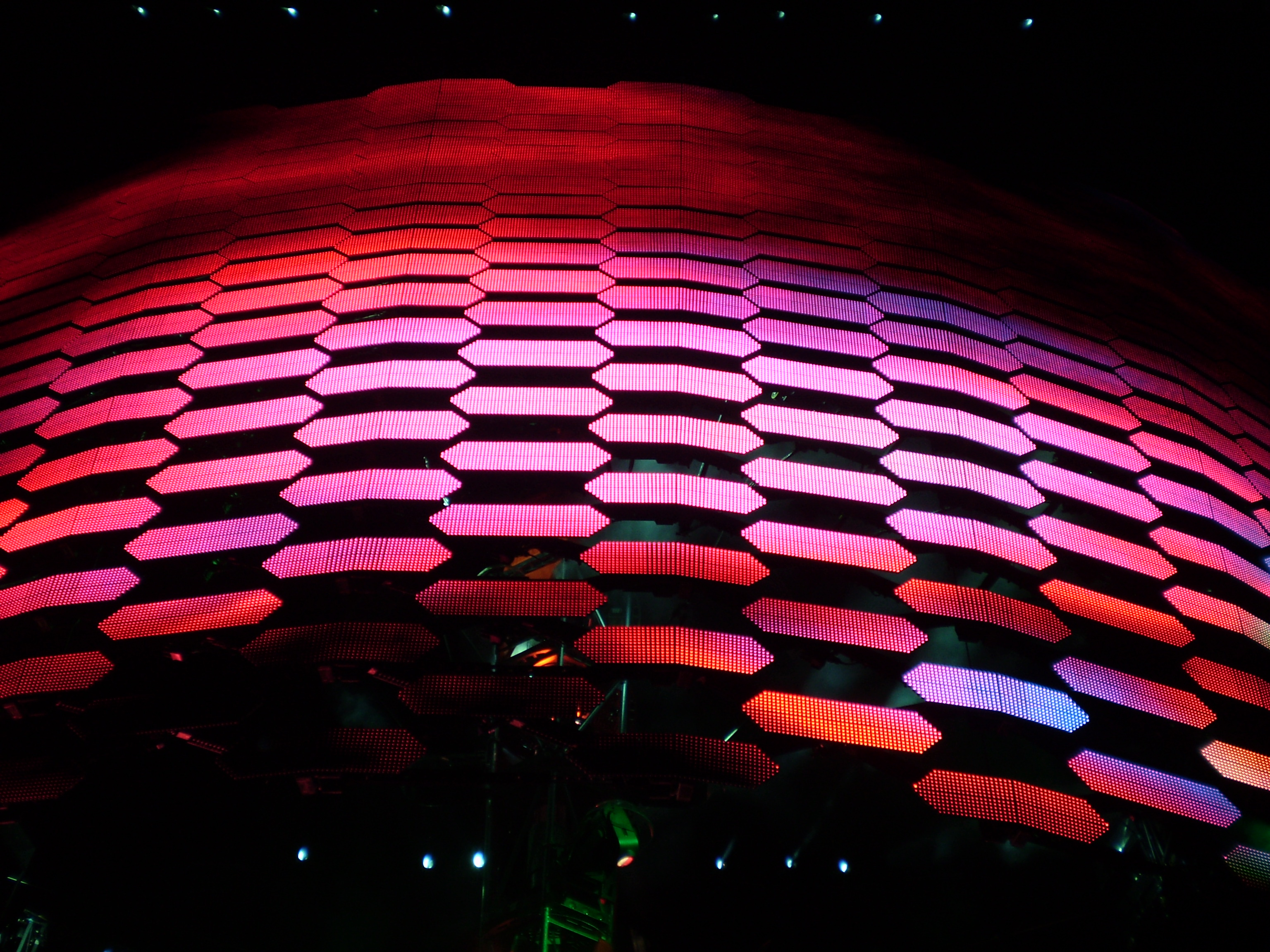 An image of the U2 360° Tour video screen as it begins to descend during a performance of "The Unforgettable Fire".